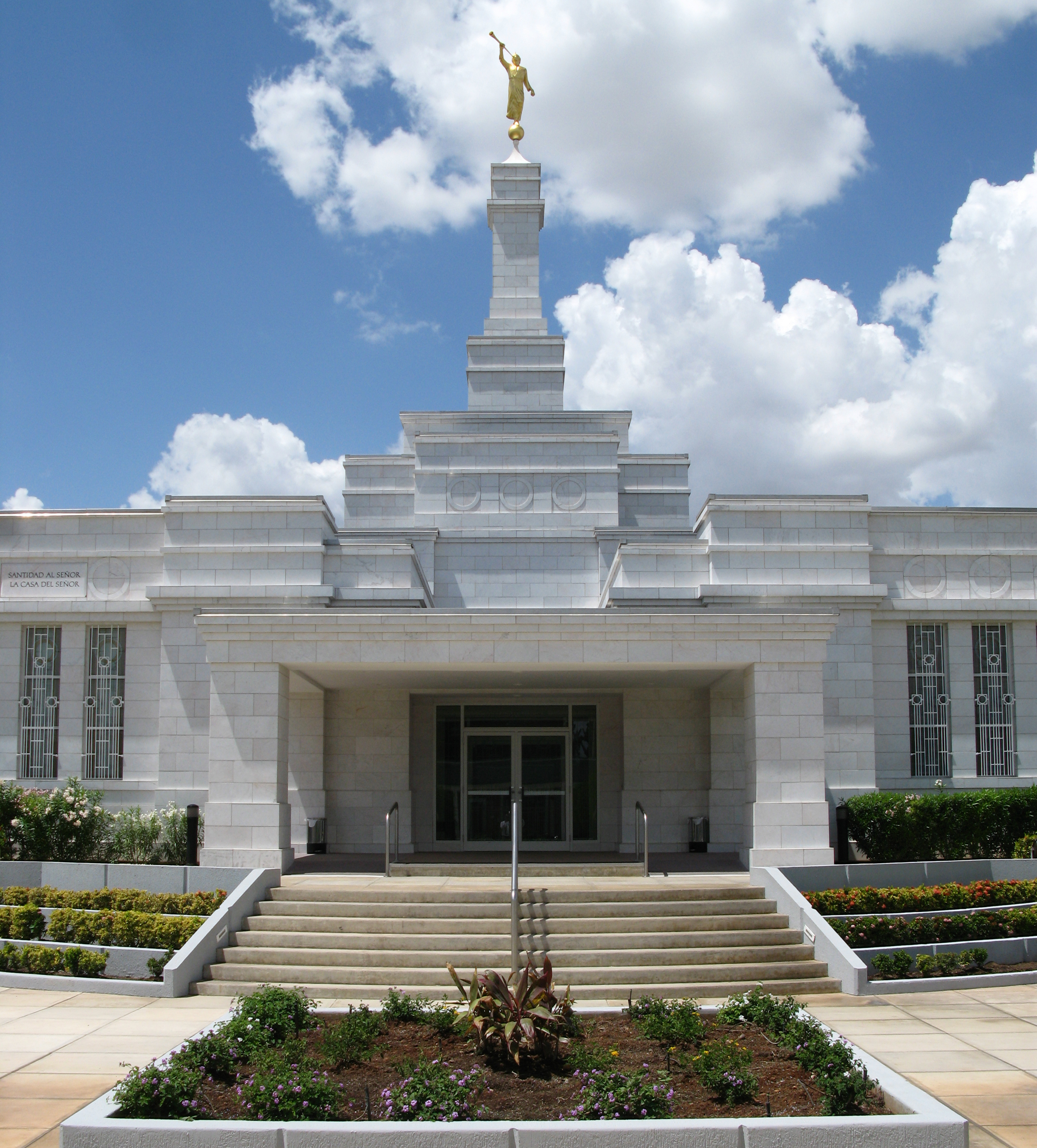 The Mérida México Temple of The Church of Jesus Christ of Latter-day Saints, closer view, by Andy Funk